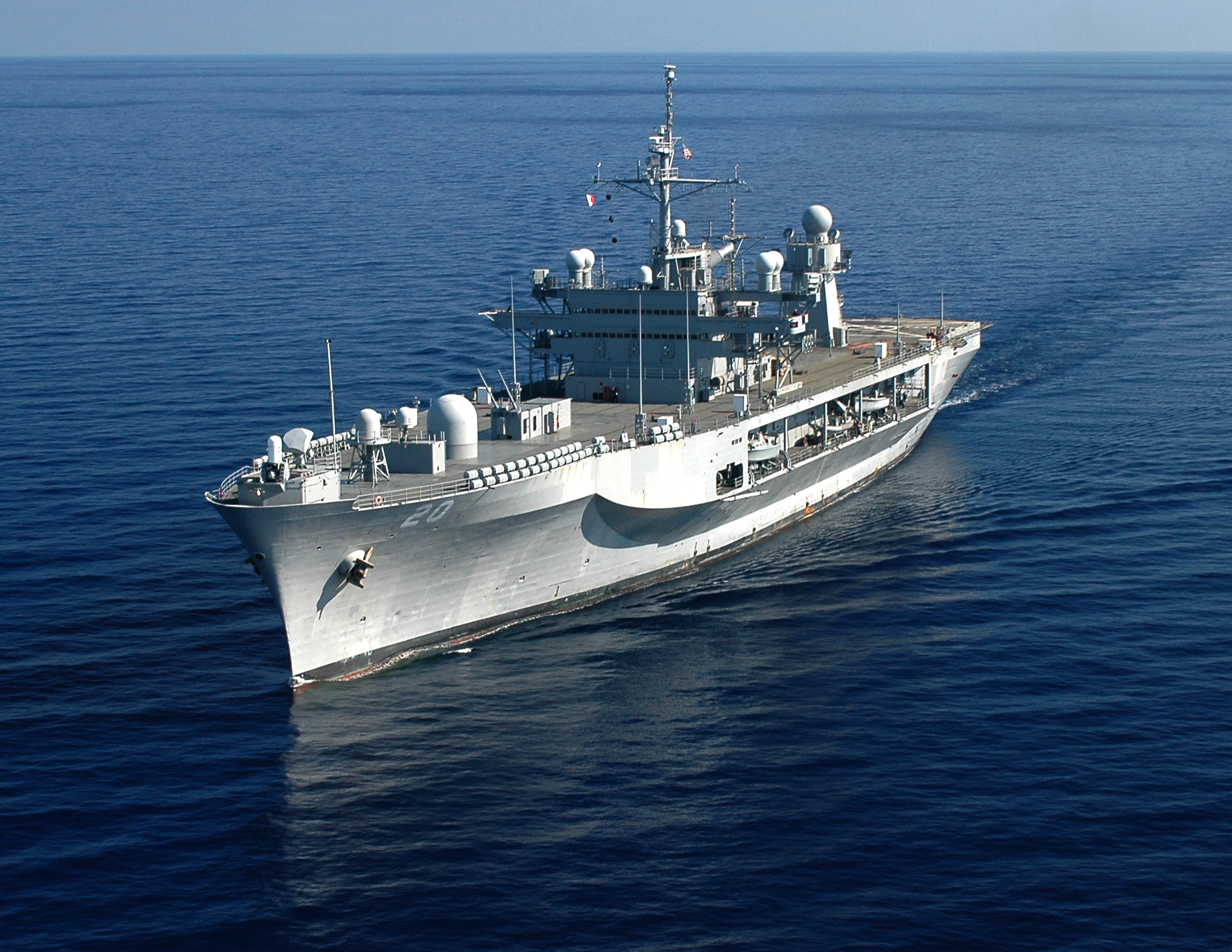 Mediterranean Sea (Aug. 27, 2005) - The amphibious command ship USS Mount Whitney (LCC 20), is underway with Sailors and Marines from the newly combined staff for commander Naval Forces Europe and commander 6th Fleet (CNE-C6f) in support of the Joint Forces Maritime Component Commander Europe (JFMCC EUR) staff. JFMCC EUR is the maritime arm of the United States European Command (EUCOM) and is underway this week conducting an exercise involving real world scenarios. U.S. Navy photo by Photographer's Mate 2nd Class Sarah Bir (RELEASED)